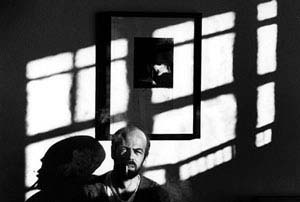 Martial Leiter